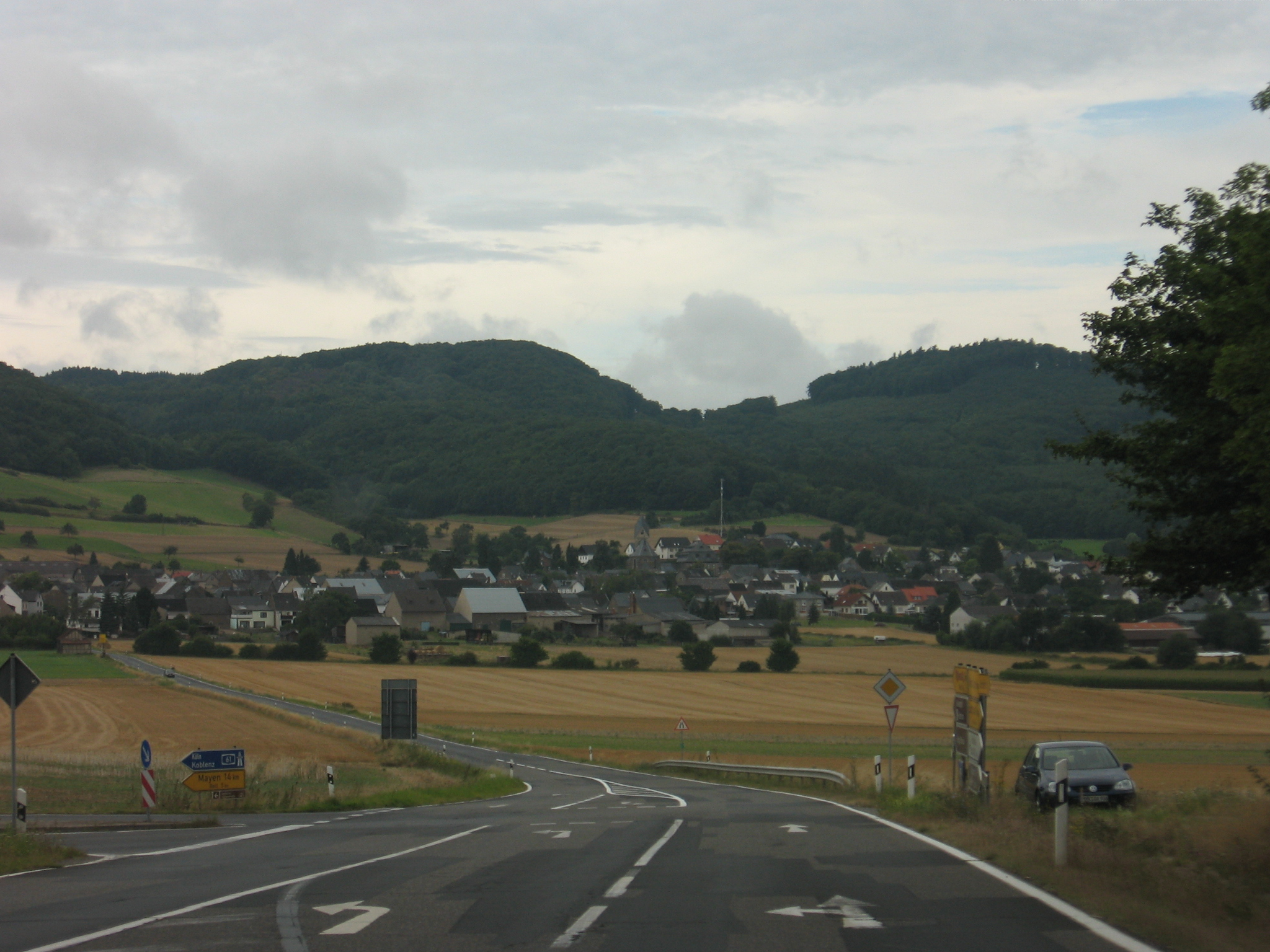 Wehr (Eifel)